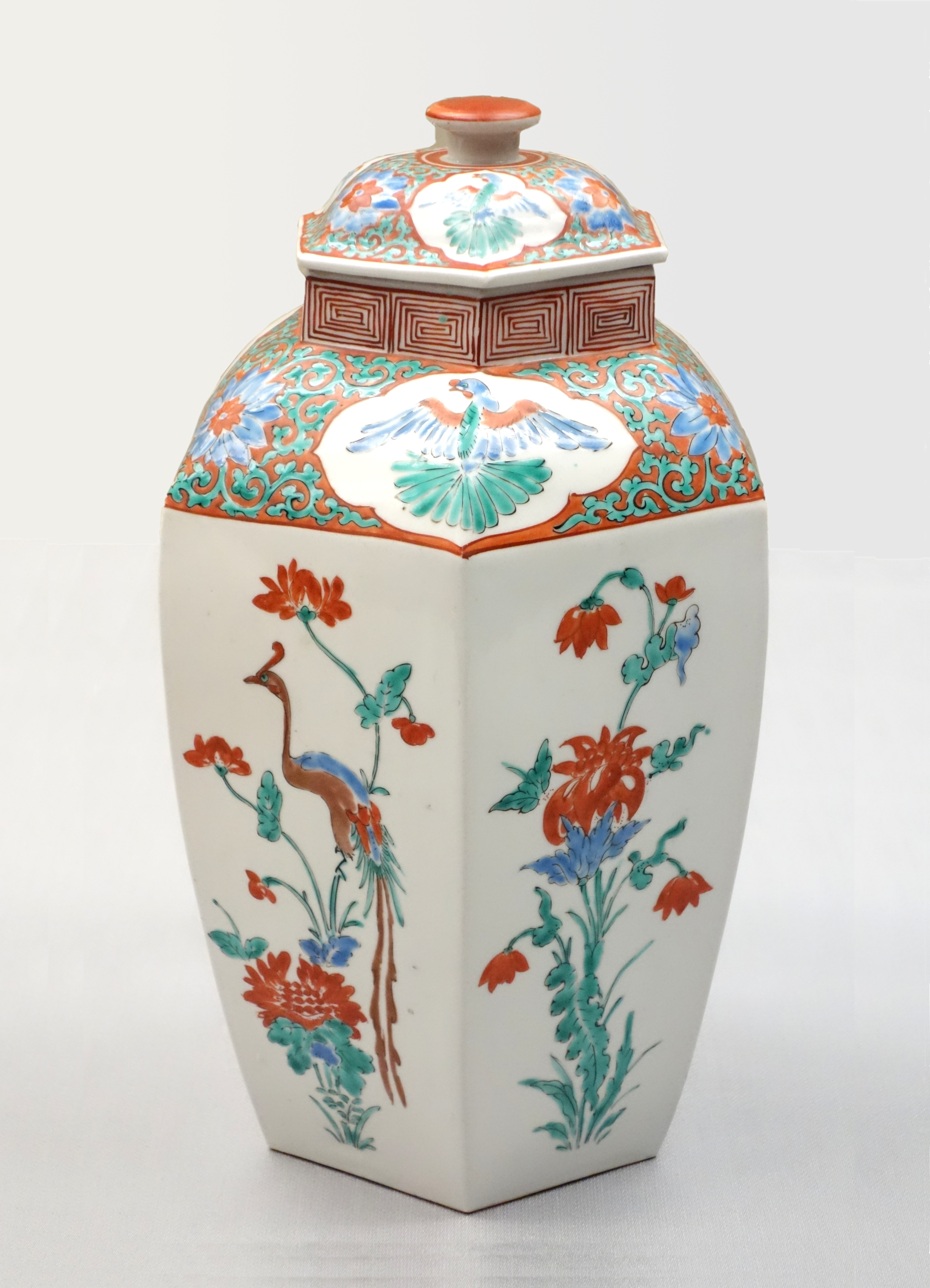 Hexagonal Jar, Imari ware, Kakiemon type, Edo period, 17th century, flowering plant and phoenix design in overglaze enamel. Exhibit in the Tokyo National Museum, Tokyo, Japan. This artwork is old enough so that it is in the public domain.